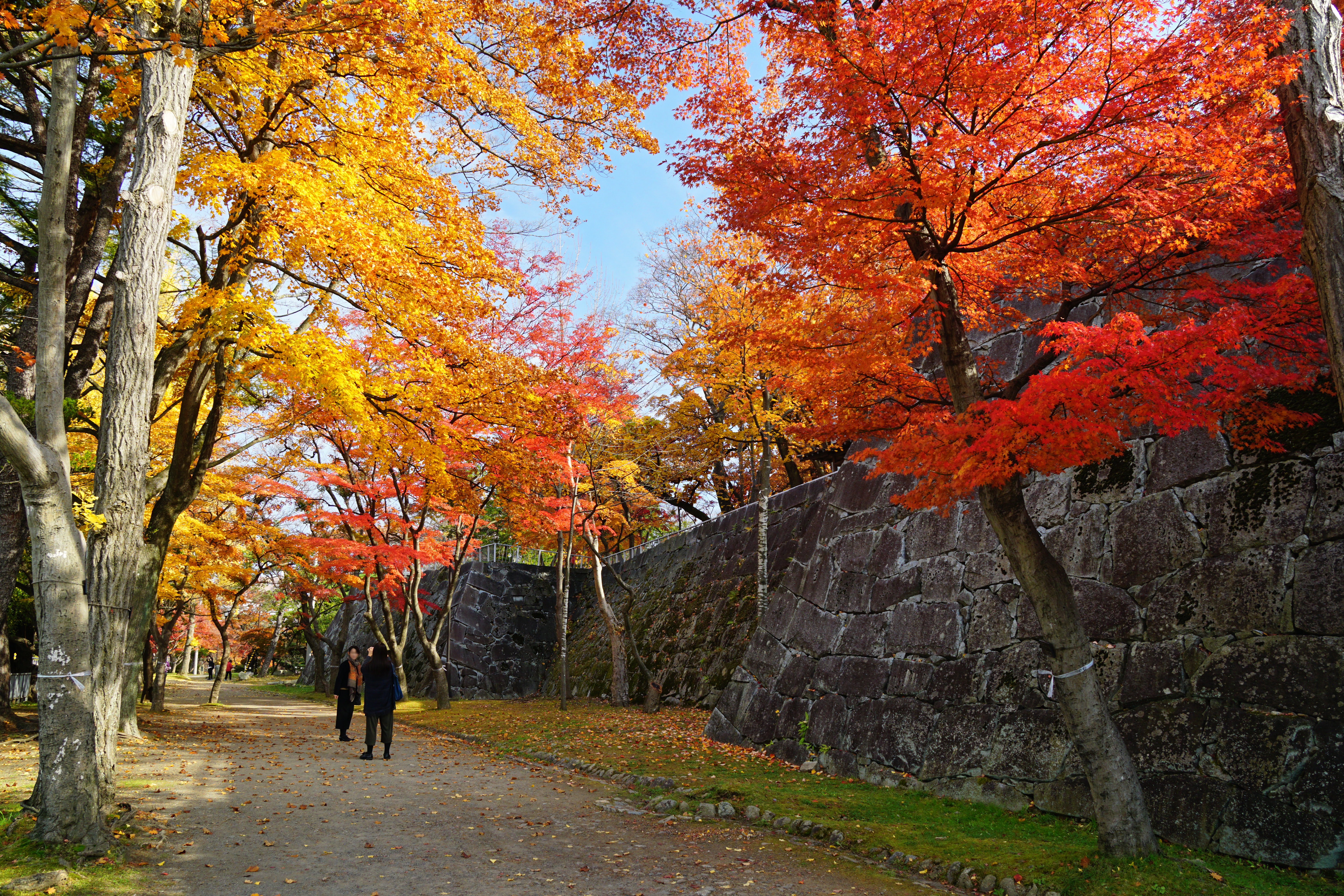 Morioka_Castle in Morioka, Iwate prefecture, Japan